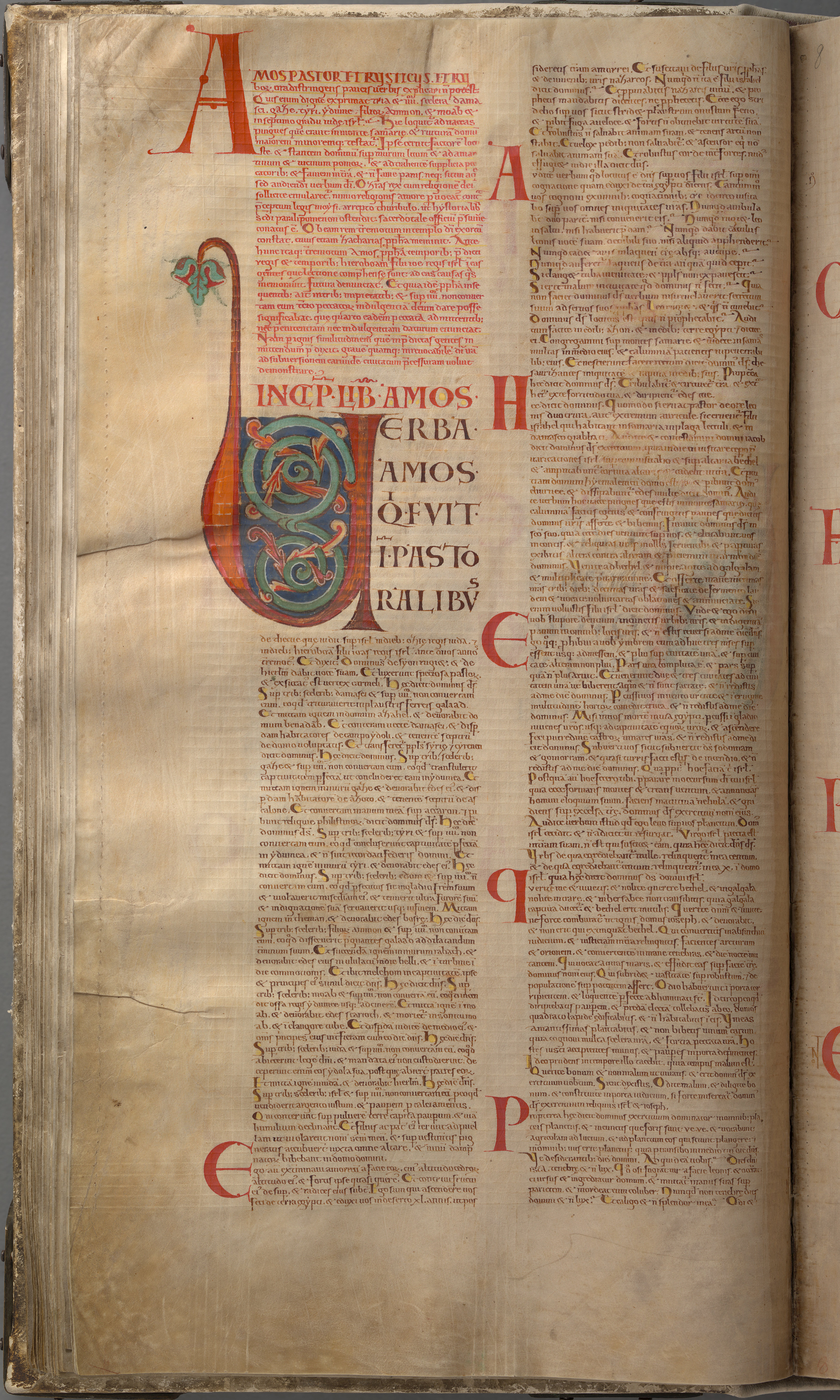 Giant Book) is the largest extant medieval manuscript in the world. It is also known as the Devil's Bible because of a large illustration of the devil on the inside and the legend surrounding its creation. It is thought to have been created in the early 13th century in the Benedictine monastery of Podlažice in Bohemia (modern Czech Republic). It contains the Vulgate Bible as well as many historical documents all written in Latin. During the Thirty Years' War in 1648, the entire collection was taken by the Swedish army as plunder, and now it is preserved at the National Library of Sweden in Stockholm, though it is not normally on display. This page contains the first part of the book of Amos (1:1-5:21).